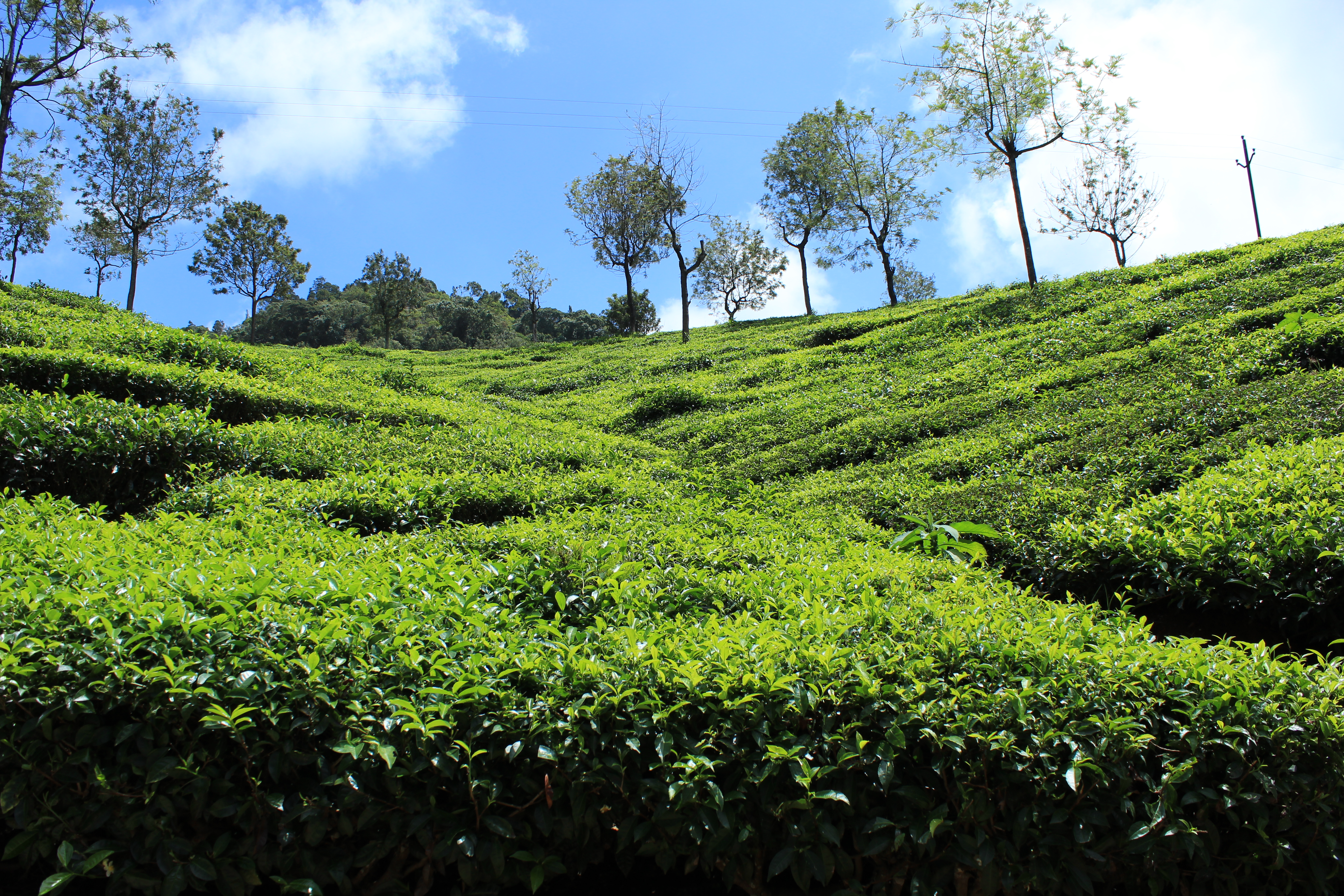 Beautiful tea plantations in the hill station of Coonoor.